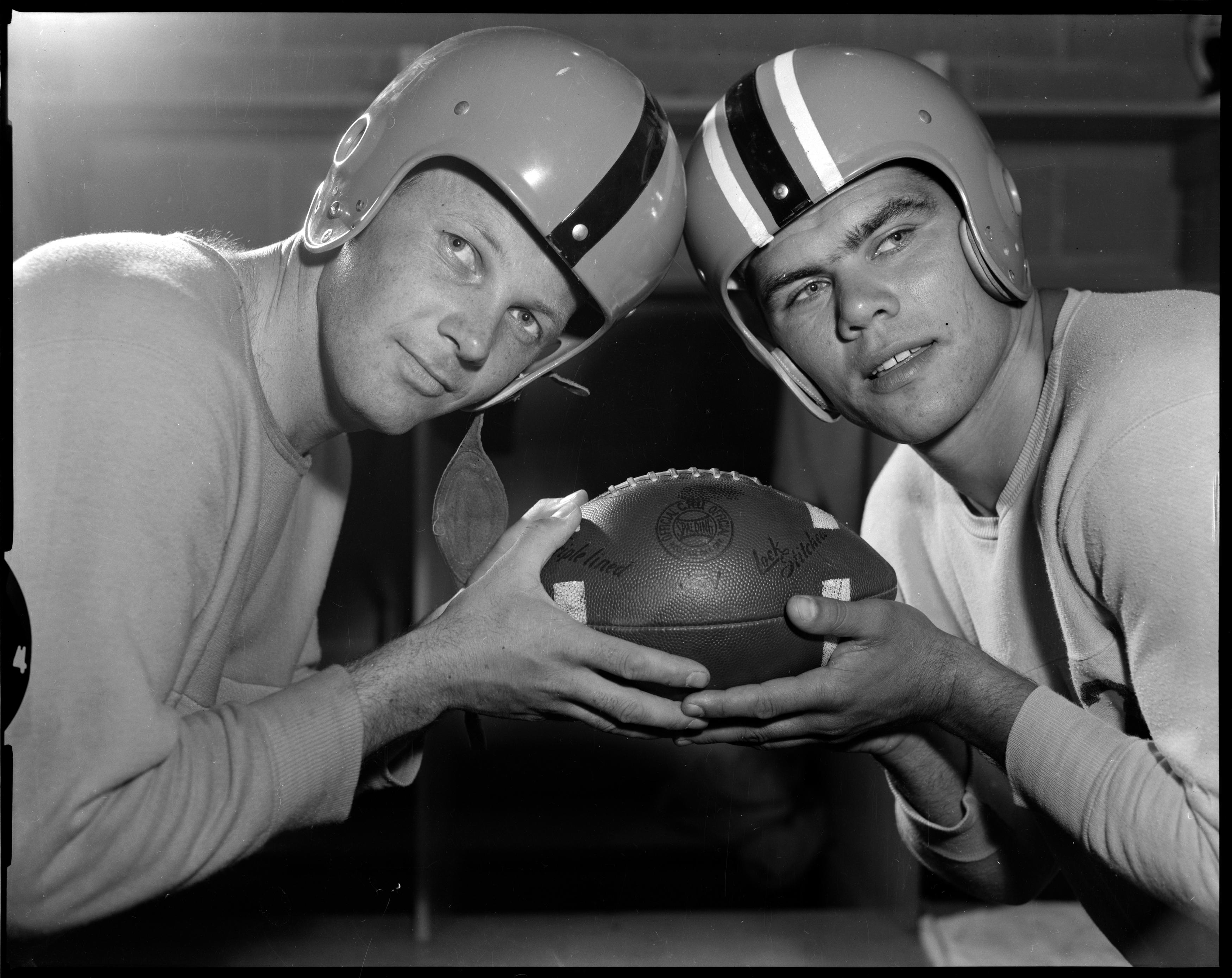 BC quarterbacks Maury Duncan and Jerry Duncan VPL Accession Number: 43923 Date: 1957 Photographer/Studio: Province Newspaper Content: East - West All Star game BC quarterbacks Topic: Football Football players Sports Person: Duncan, Jerry Duncan, Maury Organization: Empire Stadium (Vancouver, B.C.) Location: British Columbia - Vancouver - Hastings-Sunrise More information on our historical photograph collection